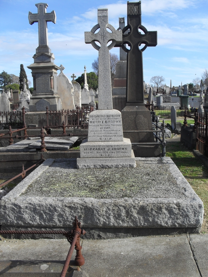 Gravestone located at Melbourne General Cemetery to mark the grave of HF Brophy and other family members.